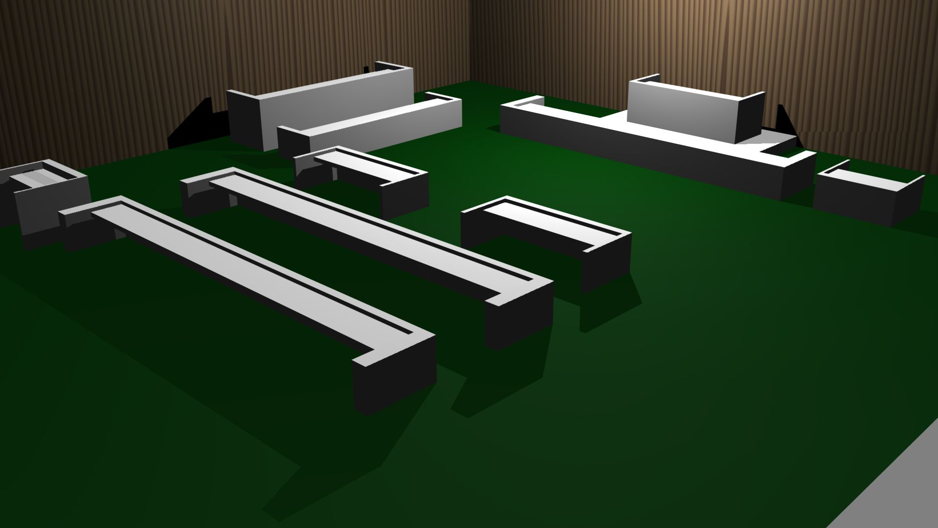 Simple diagram of typical Crown Court layout